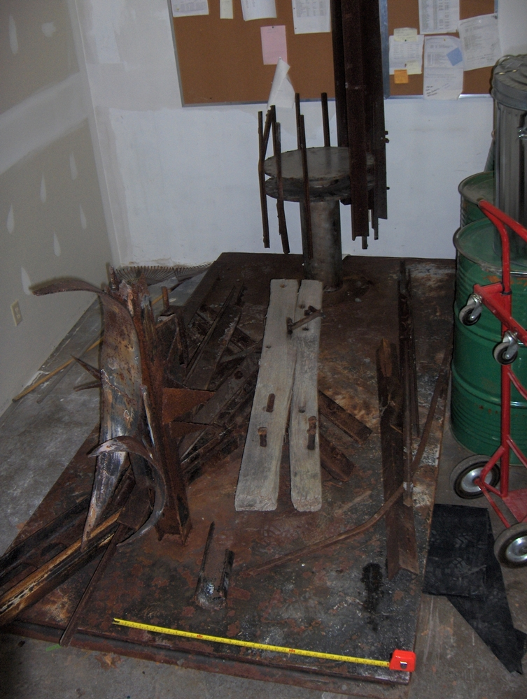 Fragments of the Halifax Explosion Memorial Sculpture in Halifax, Nova Scotia after it was dismantled in put into storage